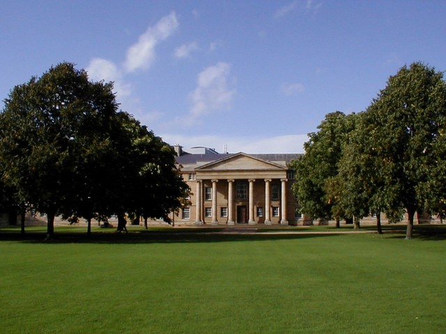 Description at en.wiki: "Chapel exterior, Downing College, Cambridge, UK Digital photo by Matthew Mayer."